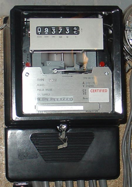 Three-phase electromechanical induction karang guni electricity meter, metering 100A 230/400V supply.